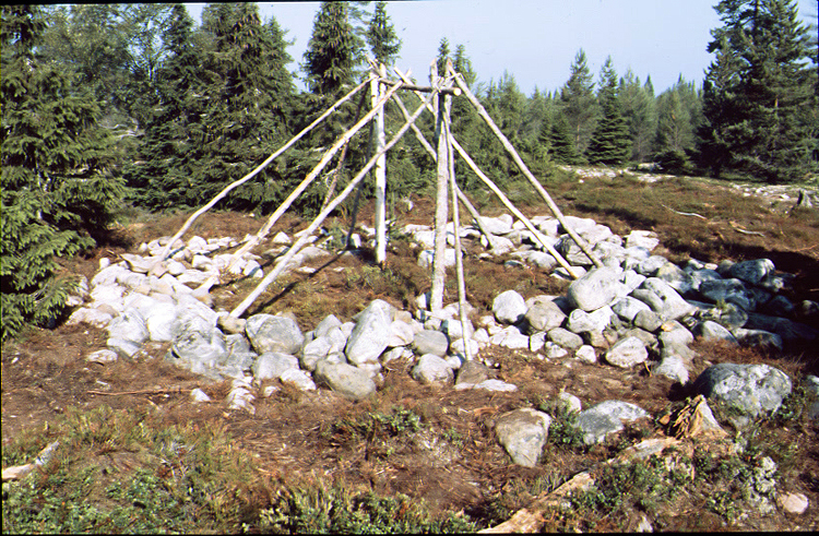 Reconstruction of fishers' and seal hunters' temporary hut at Bjuröklubb, Västerbotten county, Sweden.